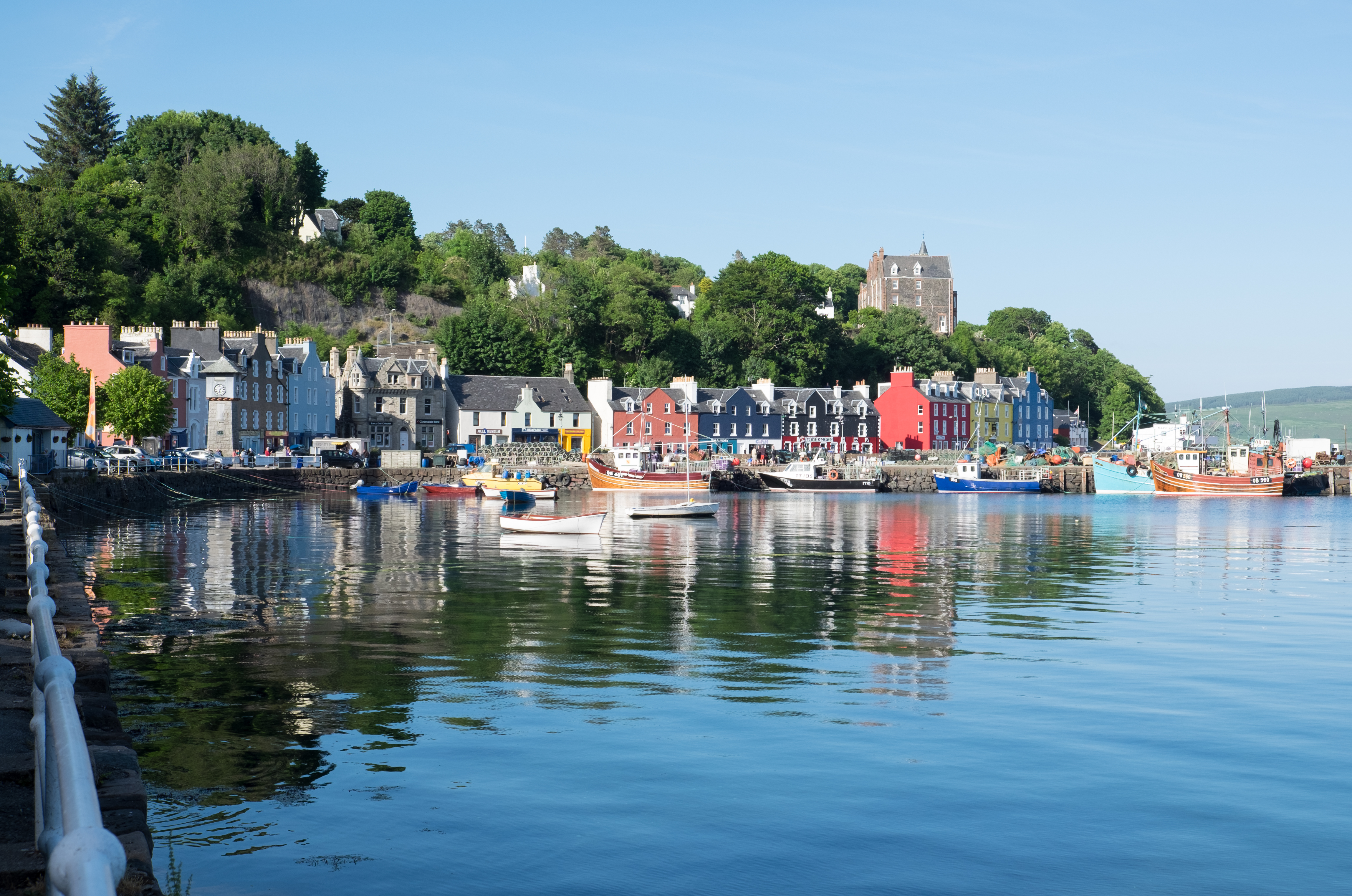 Tobermory waterfront, Isle of Mull